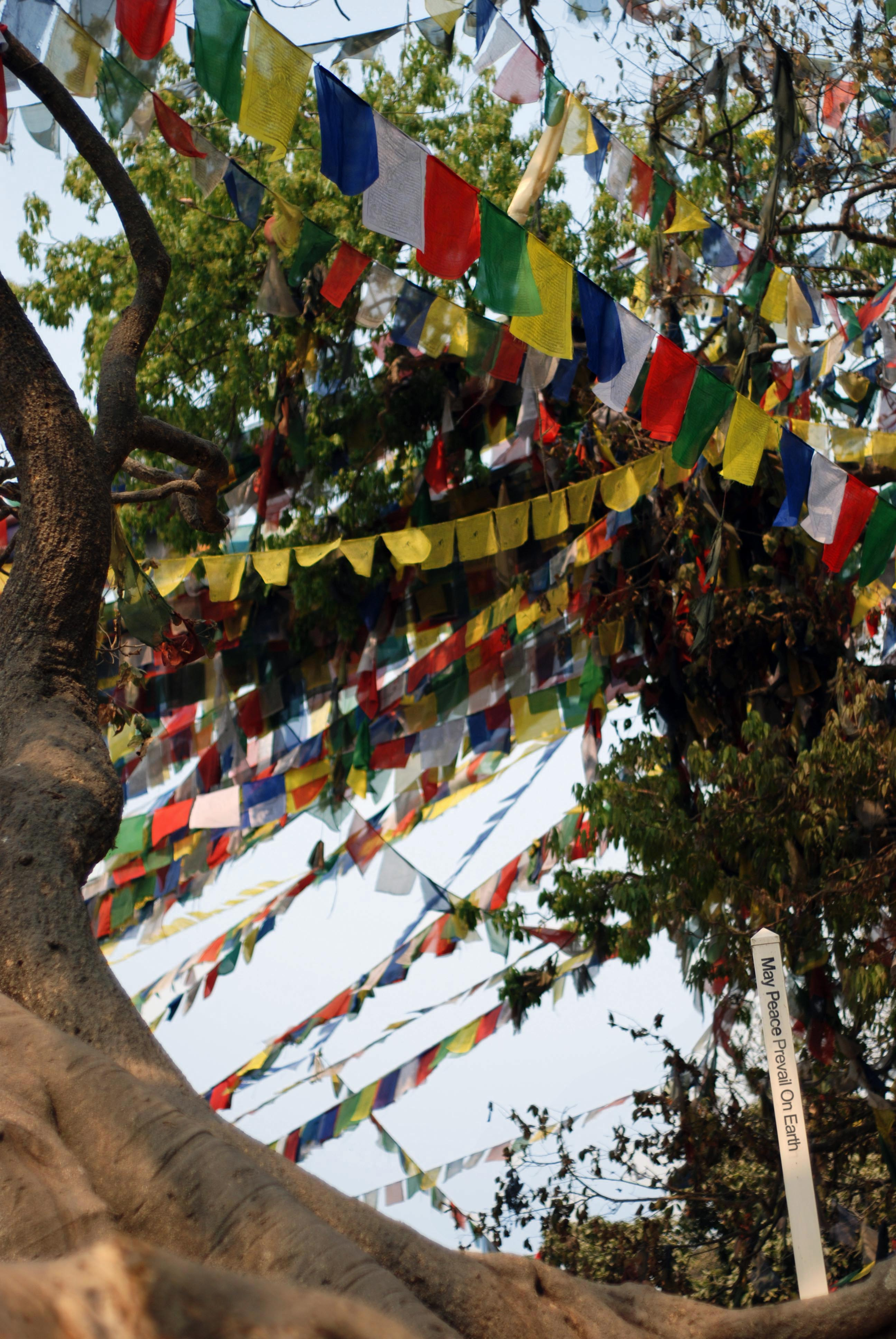 Prayer flags and an inscription "May Peace Prevail On Earth" at Swayambunath stupa Kathmandu, Nepal.